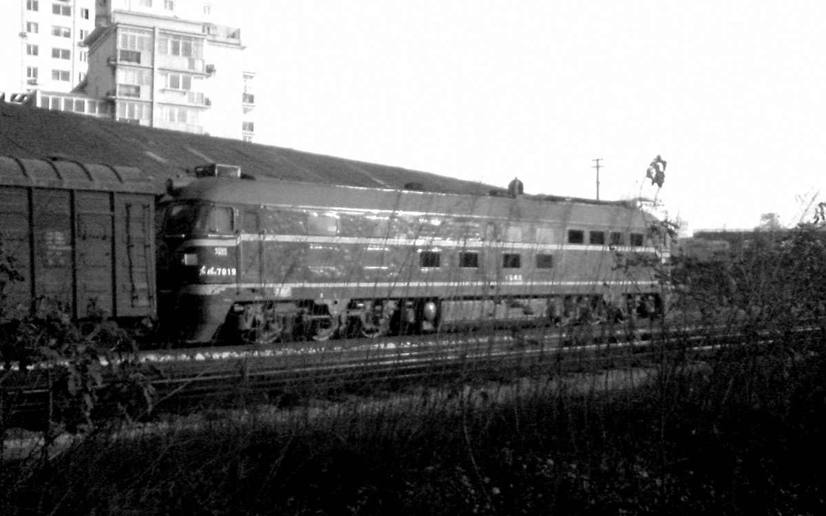 A DF4B Diesel Locomotive in Guilin North Railway Station